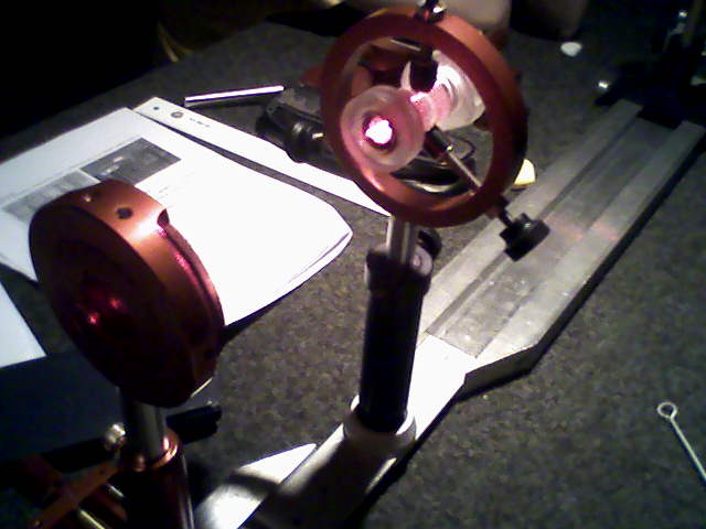 Optical rotation (optical activity) experiment. The LASER light passes inside a sucrose solution box, then passes by a analyzing polaroid.